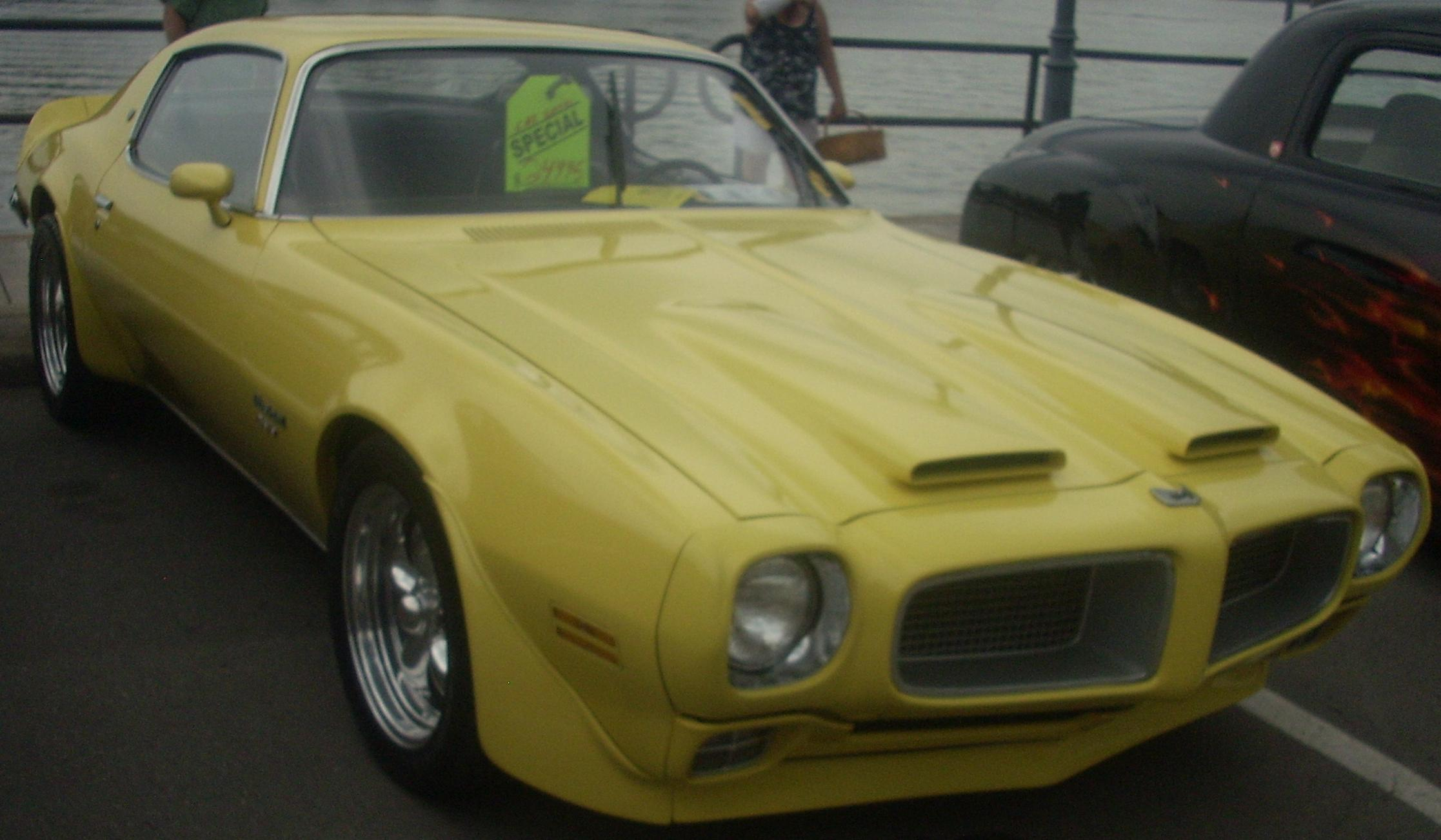 1970 Pontiac Firebird photographed in Ste. Anne De Bellevue, Quebec, Canada at Cruisin' At The Boardwalk 2010.